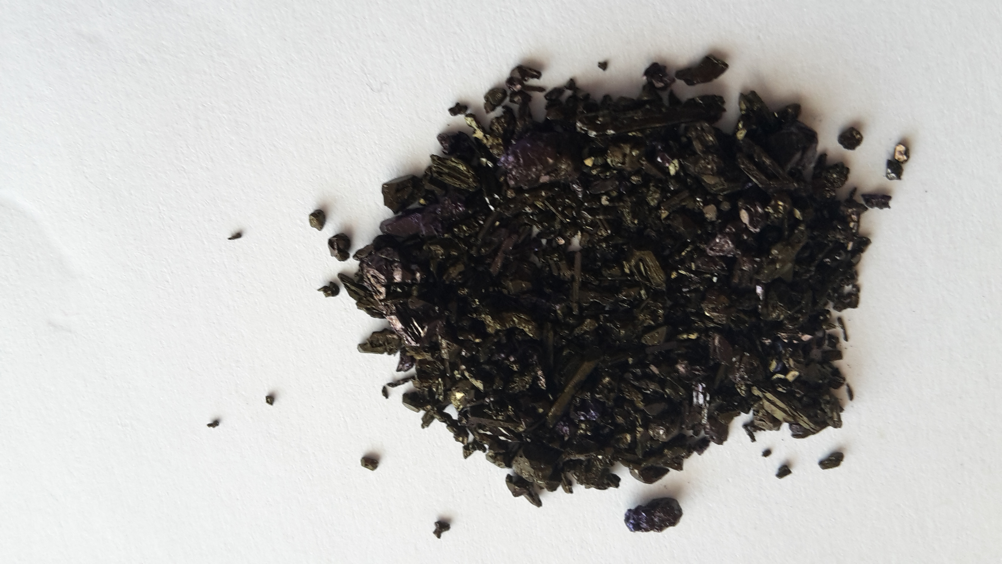 Small Potassium Permanganate crystals (KMnO4).